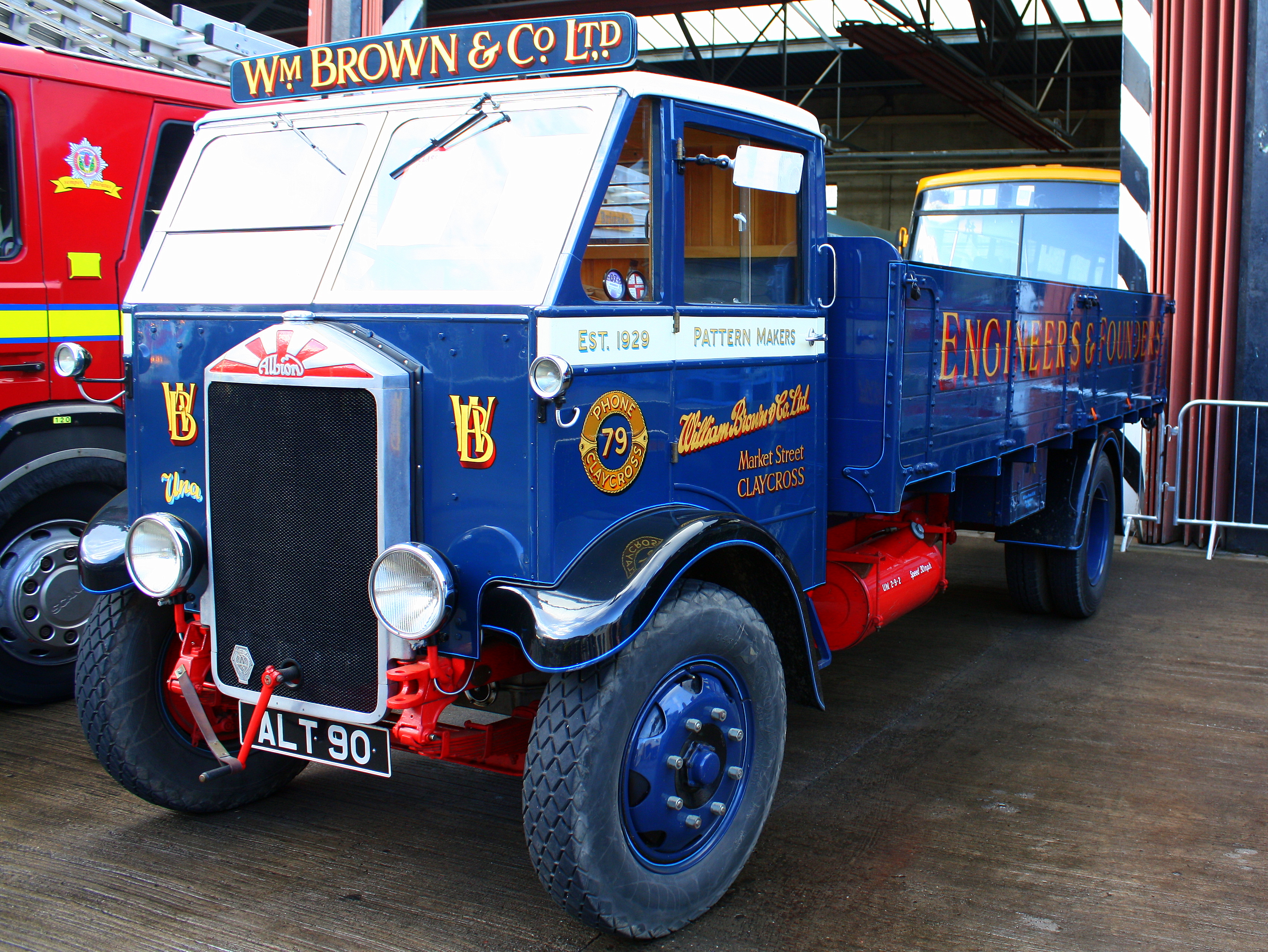 Albion ALT90